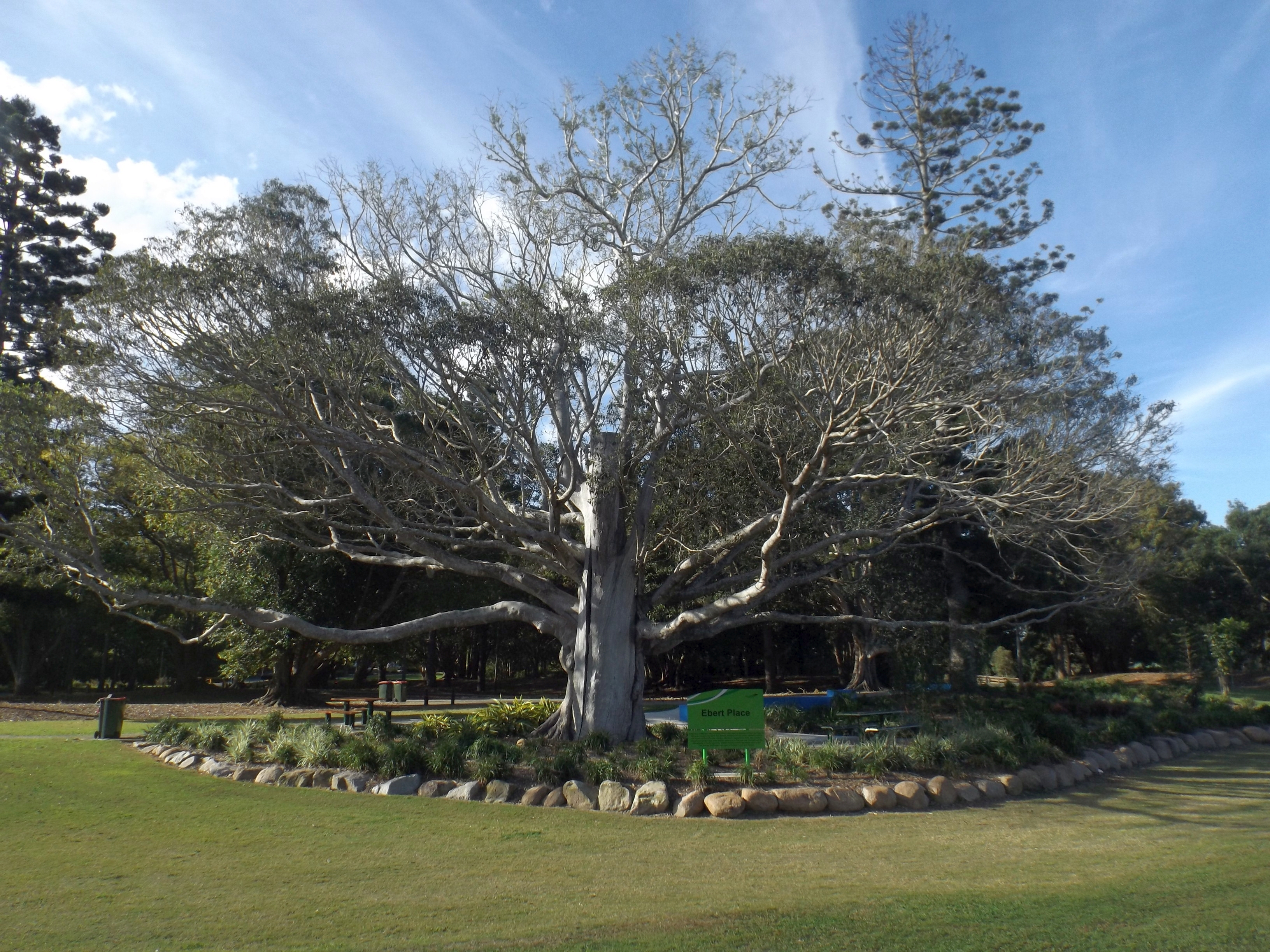 Photo of Ebert Place at Sweeney's Reserve at Petrie, Moreton Bay Region, Queensland, Australia.